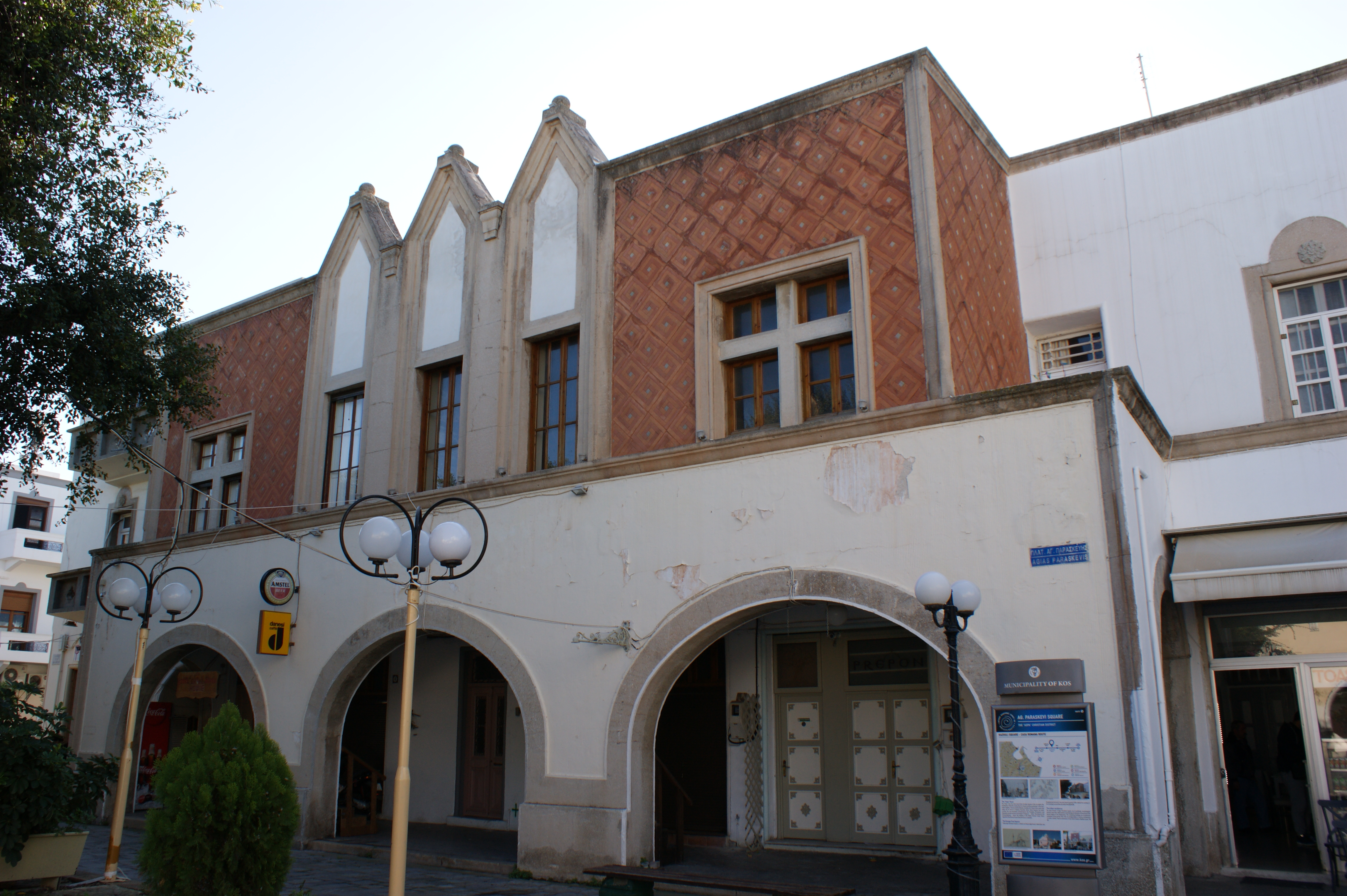 Square at the Church of Saint Paraskevi (Agia Paraskevi).